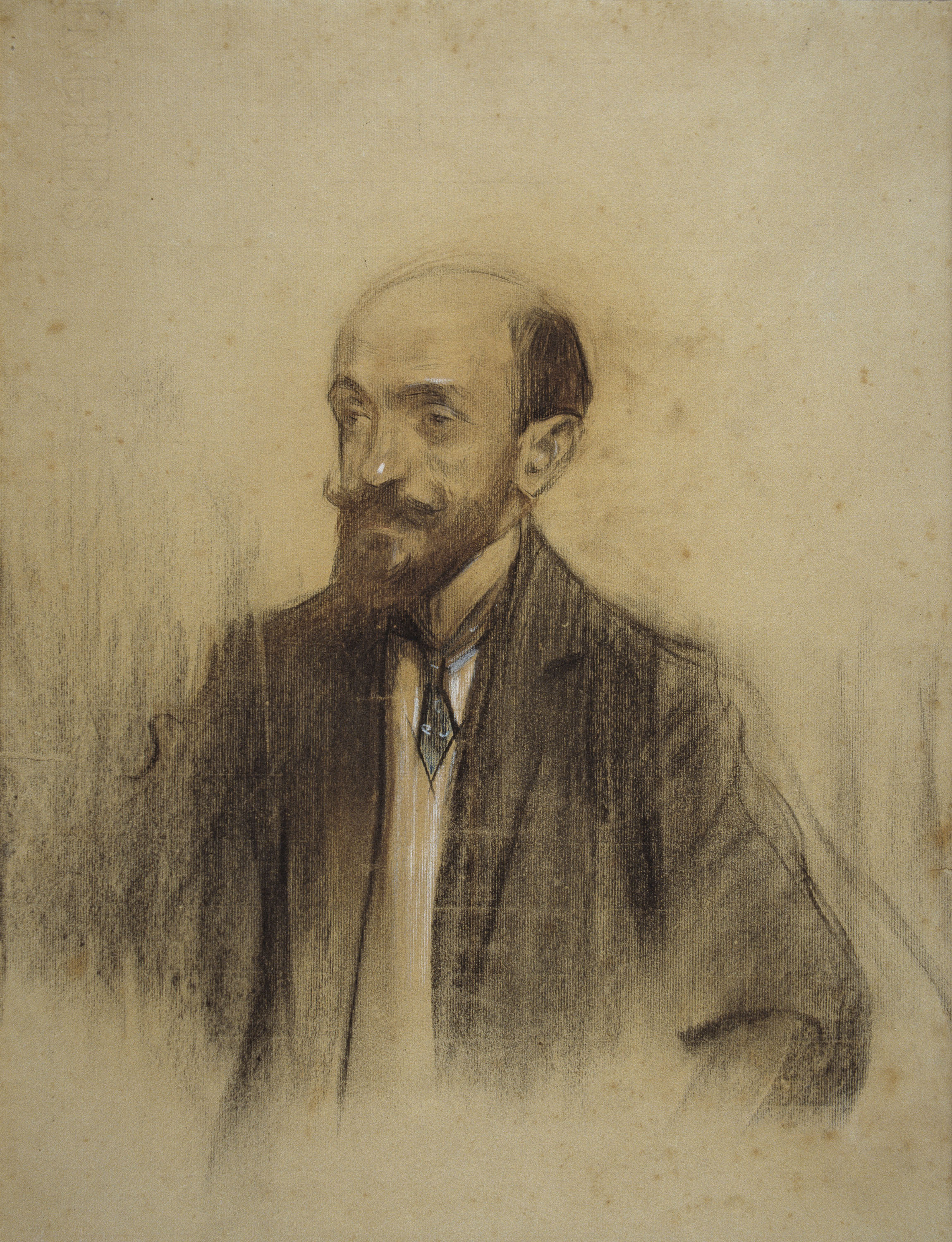 Portrait by Ramon Casas conserved at MNAC in Barcelona. Imagen 010